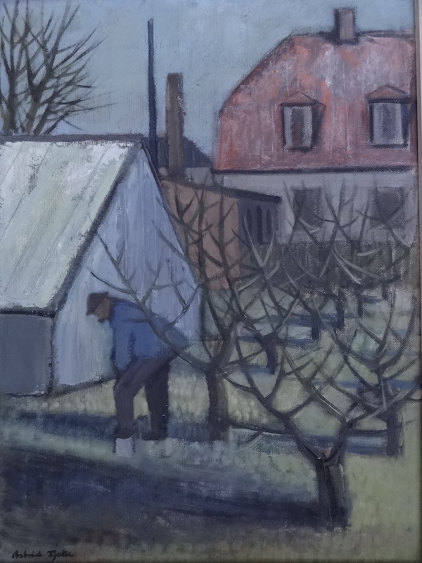 The Danish artist Astrid Tjalk Oil painting of her neighbours garden mid 1970s